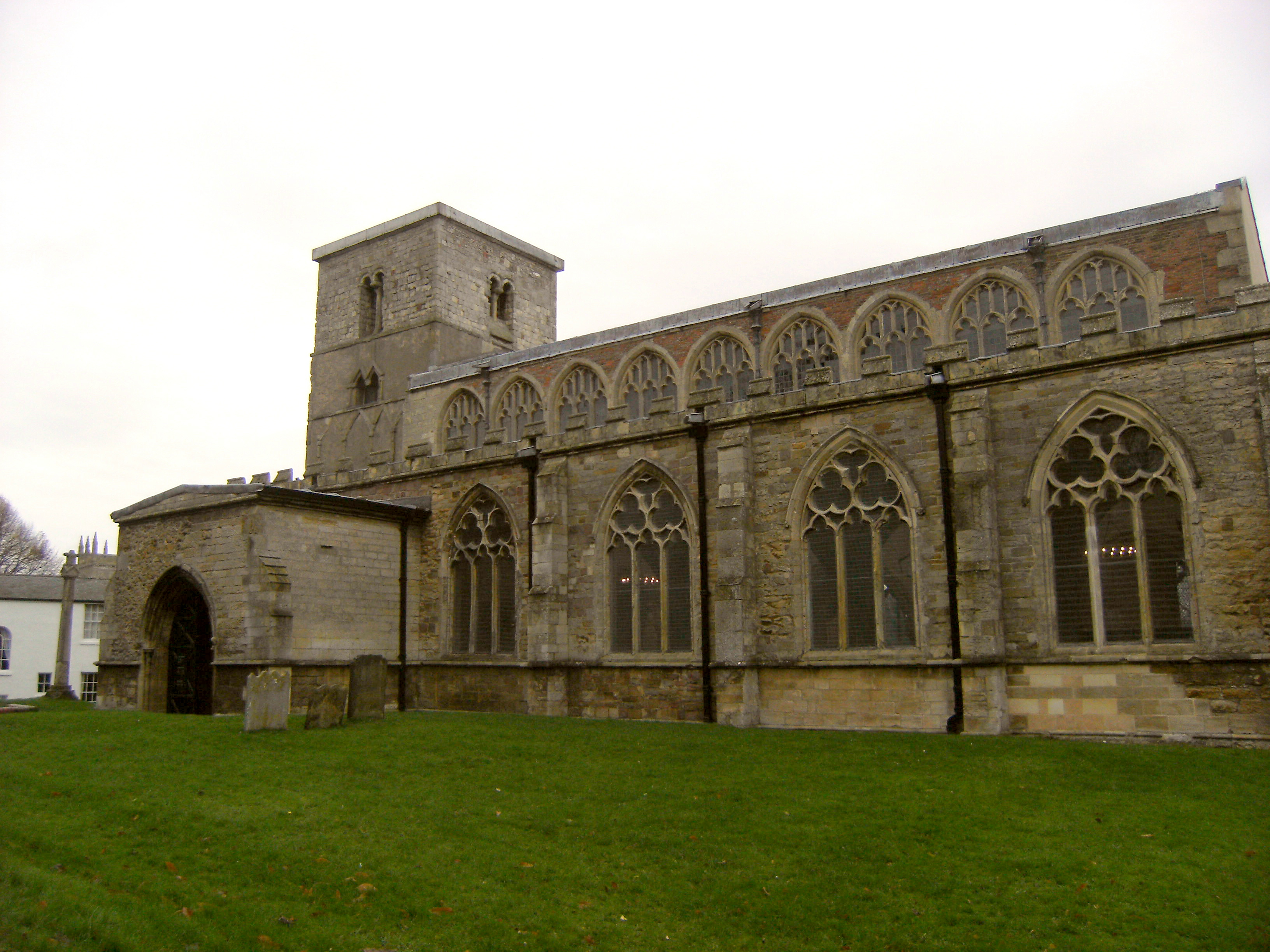 St Peter's Church, Barton-upon-Humber, from the south east